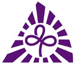 Miyashiro saitama chapter